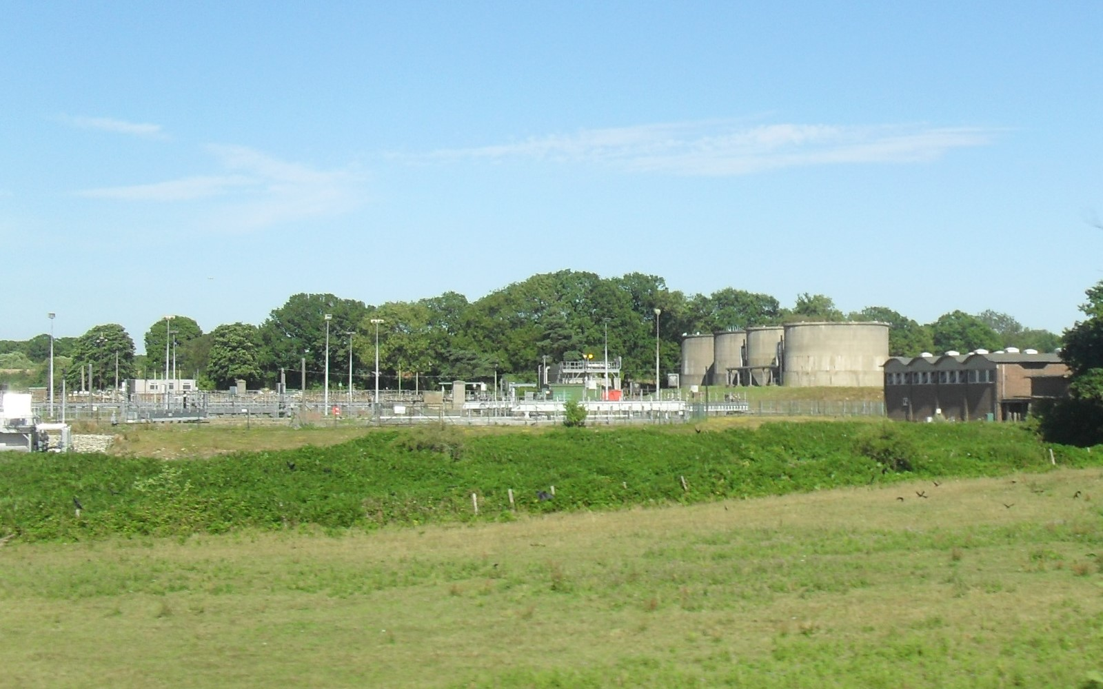 Crawley Sewage Treatment Works, Rolls Farm, Radford Road, Tinsley Green, West Sussex, England. Photographed from a passing train.